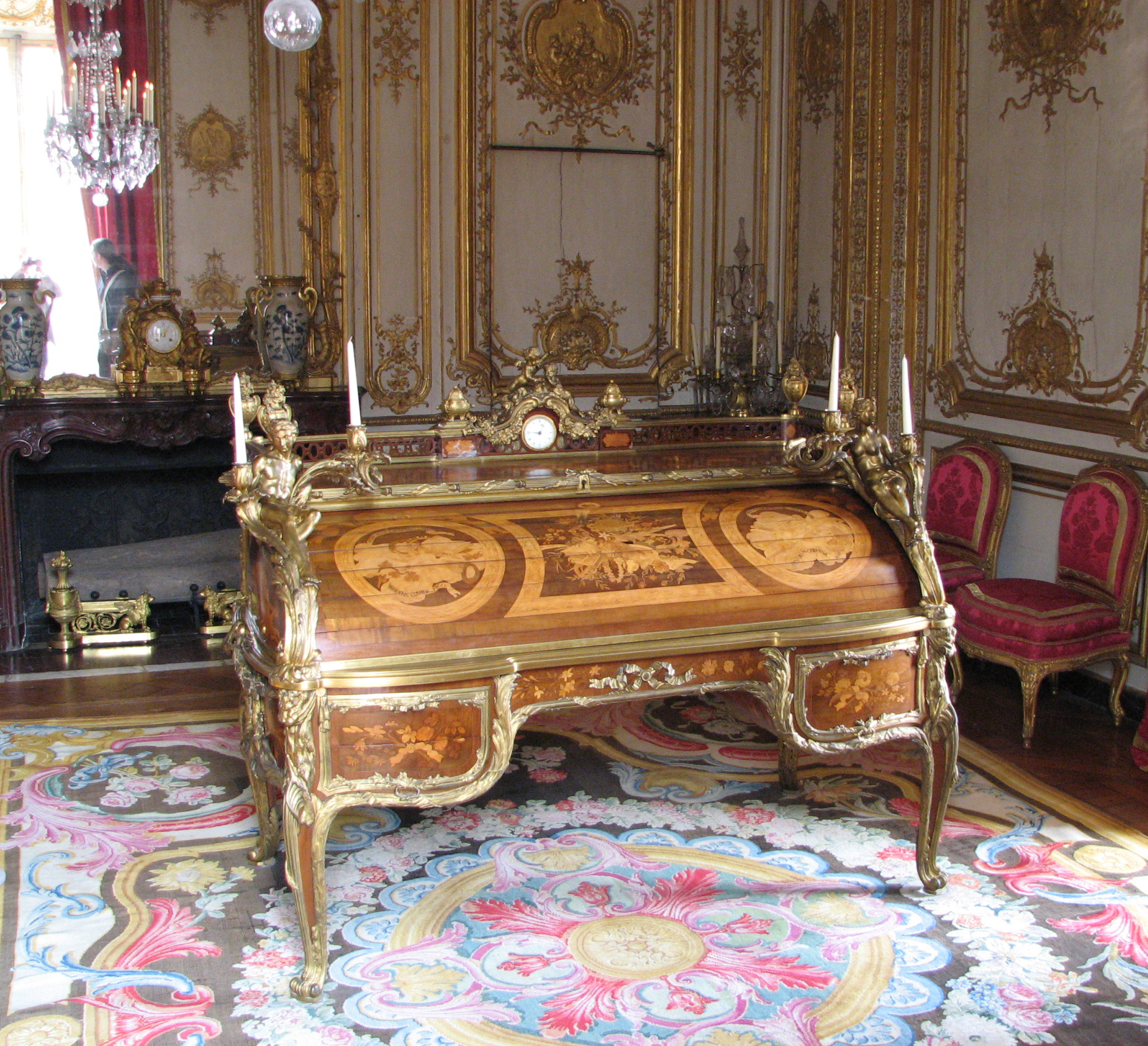 Bureau du Roi (the King's desk), also known as Louis XV's roll-top secretary, designed between 1760 and 1769, Cabinet intérieur du Roi, in Palace of Versailles